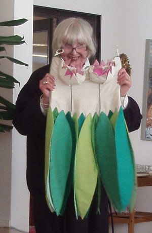 Vanja Brunzell and the dress Liljekullar